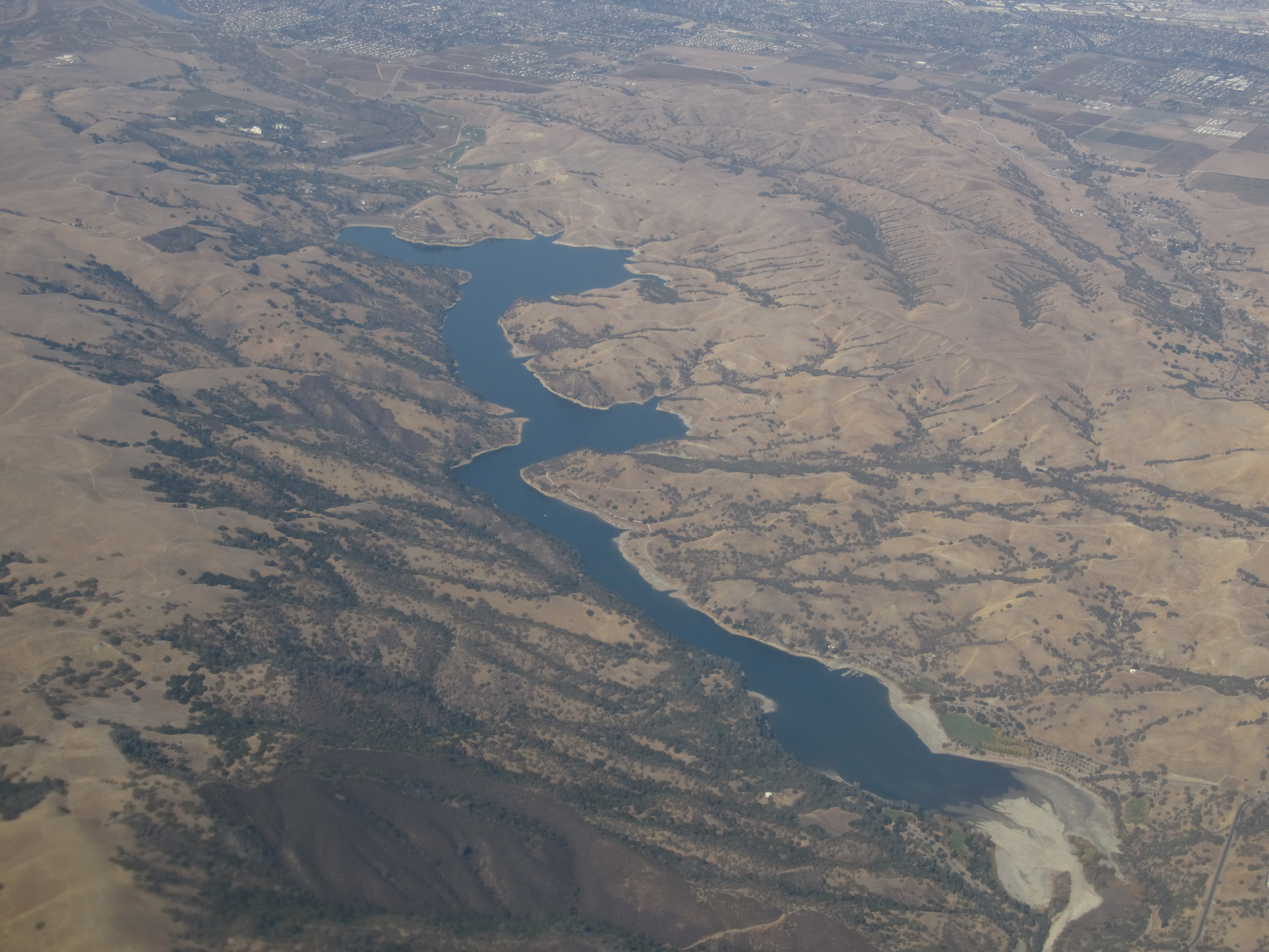 Lake Del Valle is an artificial lake located 10 miles (16 km) southeast of Livermore, California on Arroyo del Valle (Spanish for "creek of the valley") in Del Valle Regional Park. The lake is formed by Del Valle Dam, completed in 1968. The lake and dam are part of the California State Water Project, as part of the South Bay Aqueduct. The lake serves in part as off-stream storage for the South Bay Aqueduct. The capacity of the lake is 77,000 acre feet (95,000,000 m3), however, the lake has a flood storage of 25,000 to 40,000 acre feet (31,000,000 to 49,000,000 m3). Thus normally stores 37,000 to 52,000 acre feet (46,000,000 to 64,000,000 m3). The lake is a popular destination for hikers, bikers and boaters. The Hetch Hetchy Aqueduct passes below the lake, but does not connect to it.